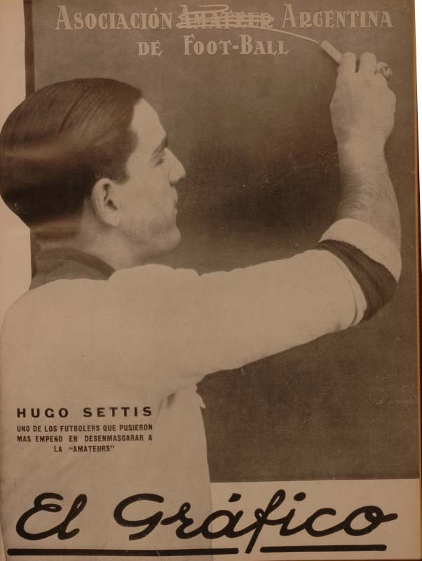 El Gráfico cover, May 30, 1931. Hugo Settis deletes the word "amateur" from the name of the Argentine football federation to underline the transition from amateur to professional football.